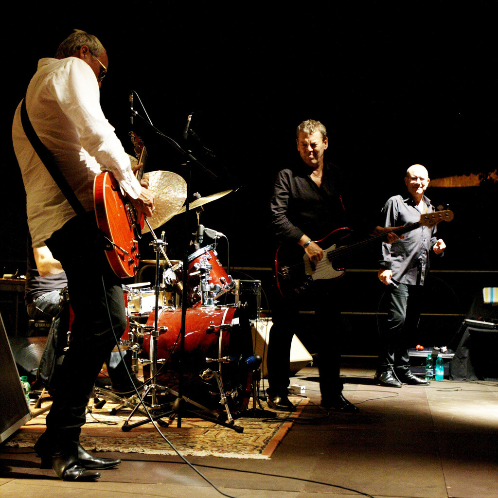 Nine Below Zero Additional photographer website